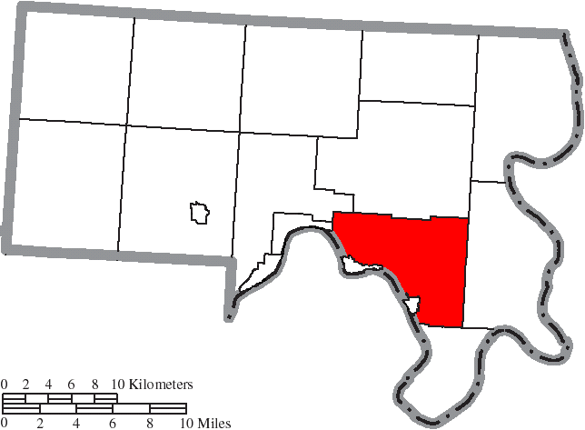 Map of the municipal and township boundaries of Meigs County, Ohio, United States, as of the 2000 census, with the location of Sutton Township highlighted. Township borders are shown only in unincorporated areas in order to differentiate incorporated and unincorporated areas more clearly.